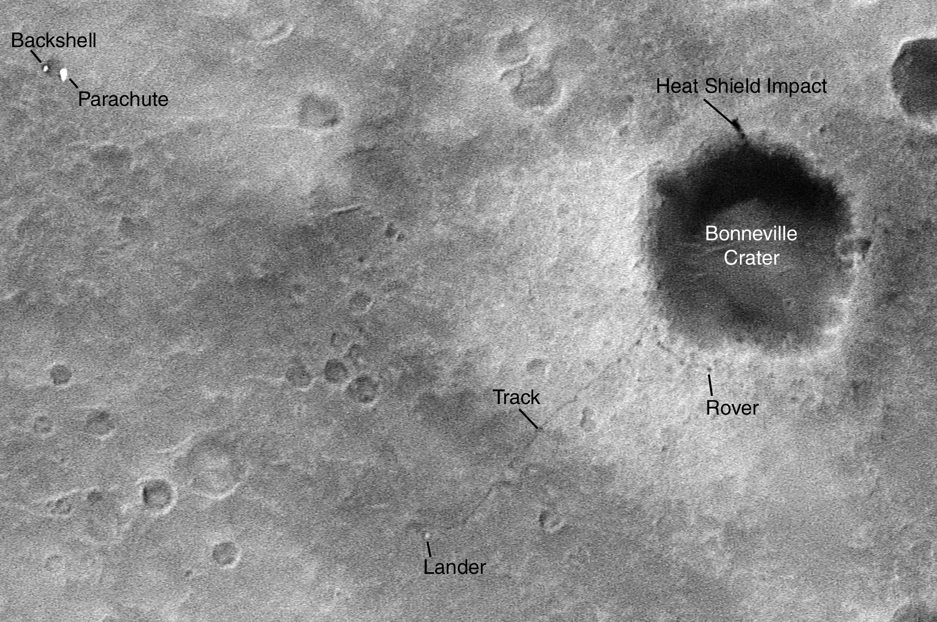 MGS photo of spirit landing site showing tracks and rover